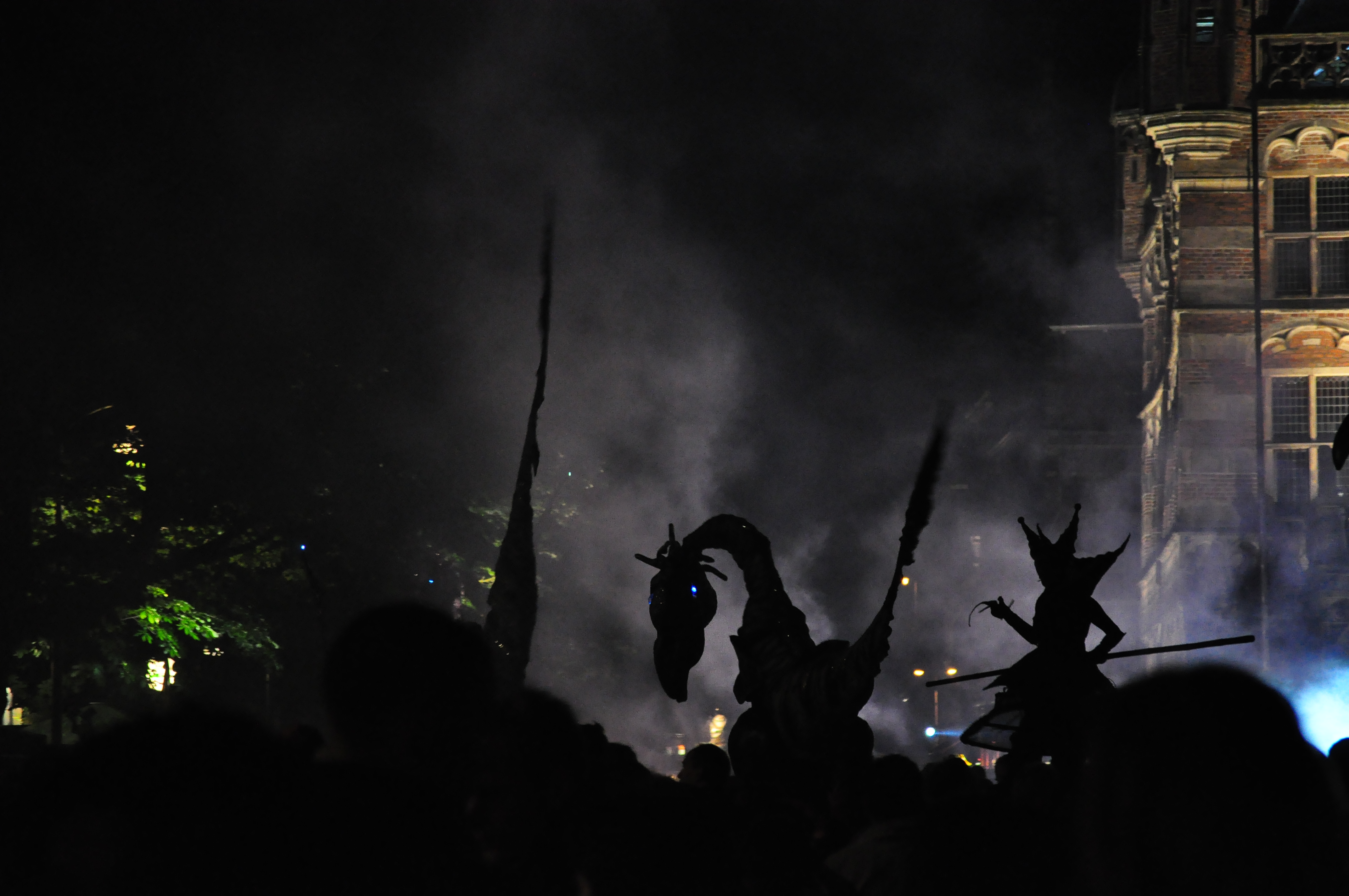 Close Act Theatre. Performance: Invasion